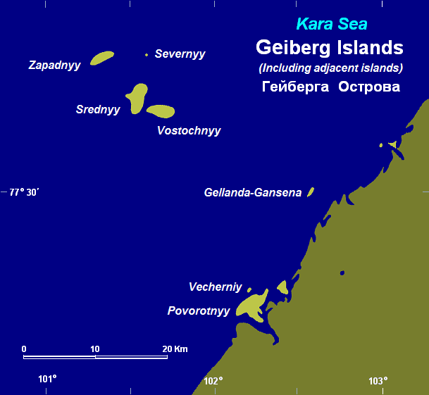 color map